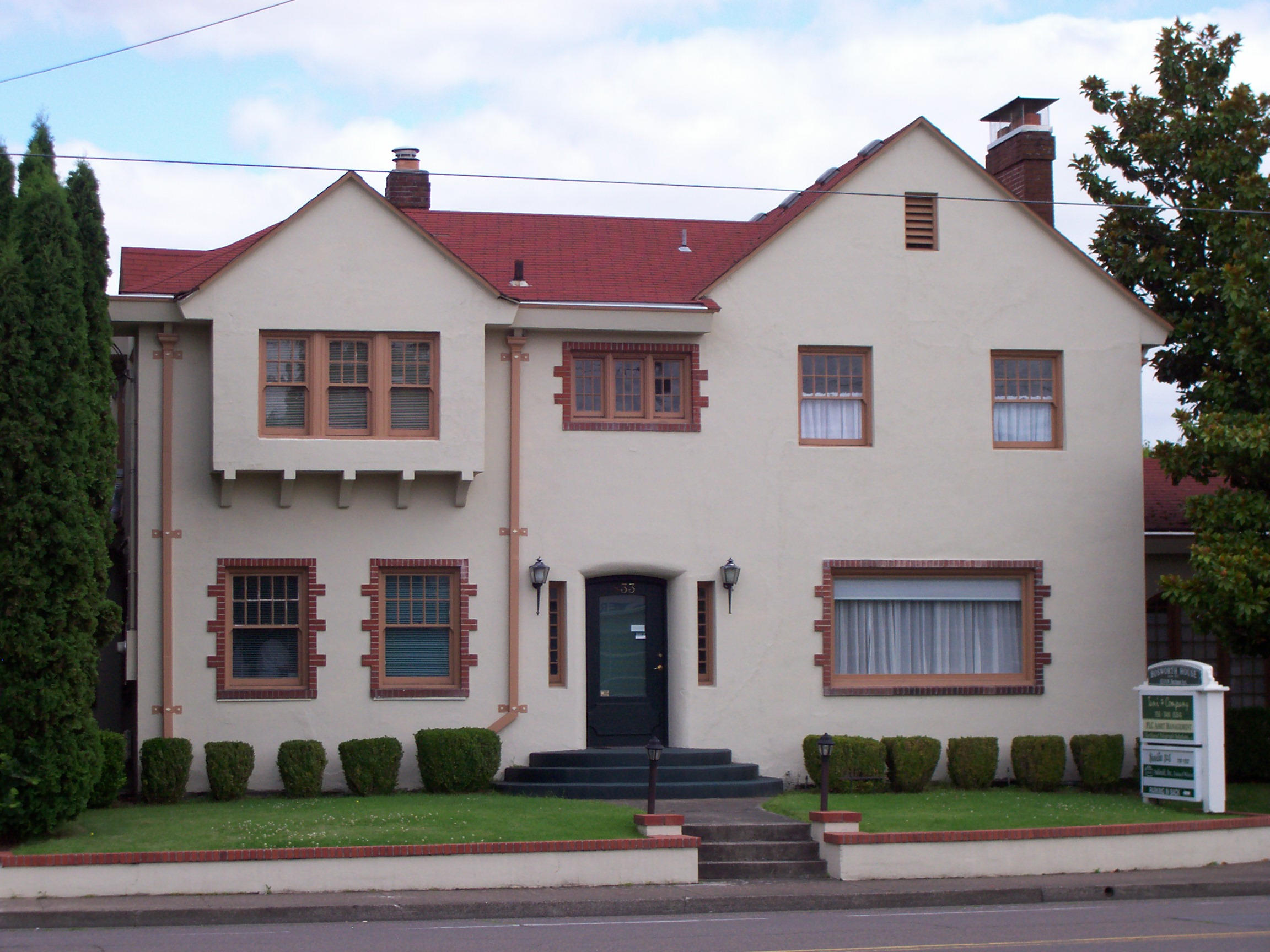 Dr. Raplh Lyman Bosworth House in Corvallis Oregon. Listed on the National Register of Historic Places.